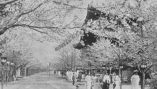 Shokei-en Park in 1930s (present-day "Changgyeong Palace")